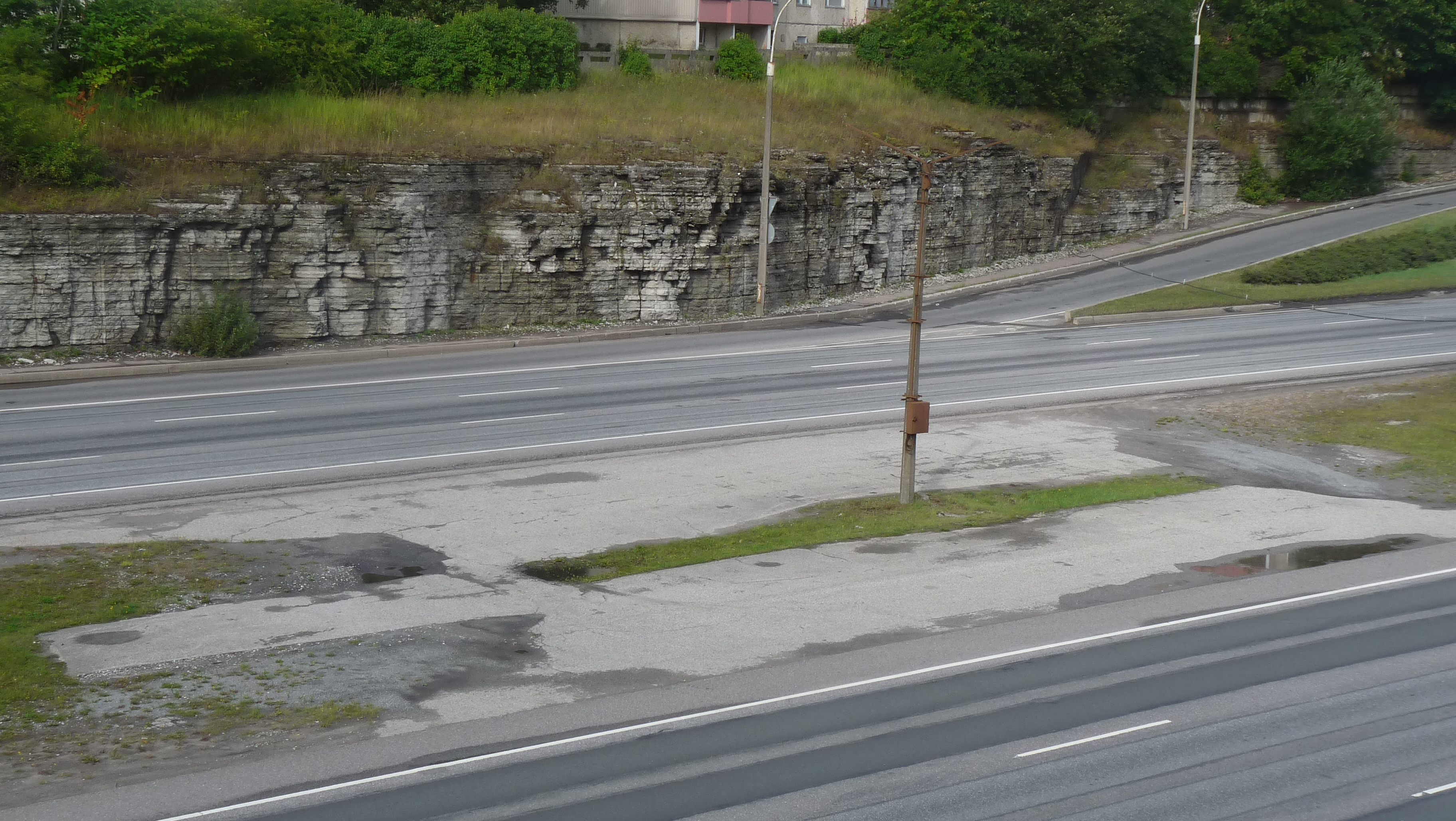 Area reserved to tram stop in end of 1980's